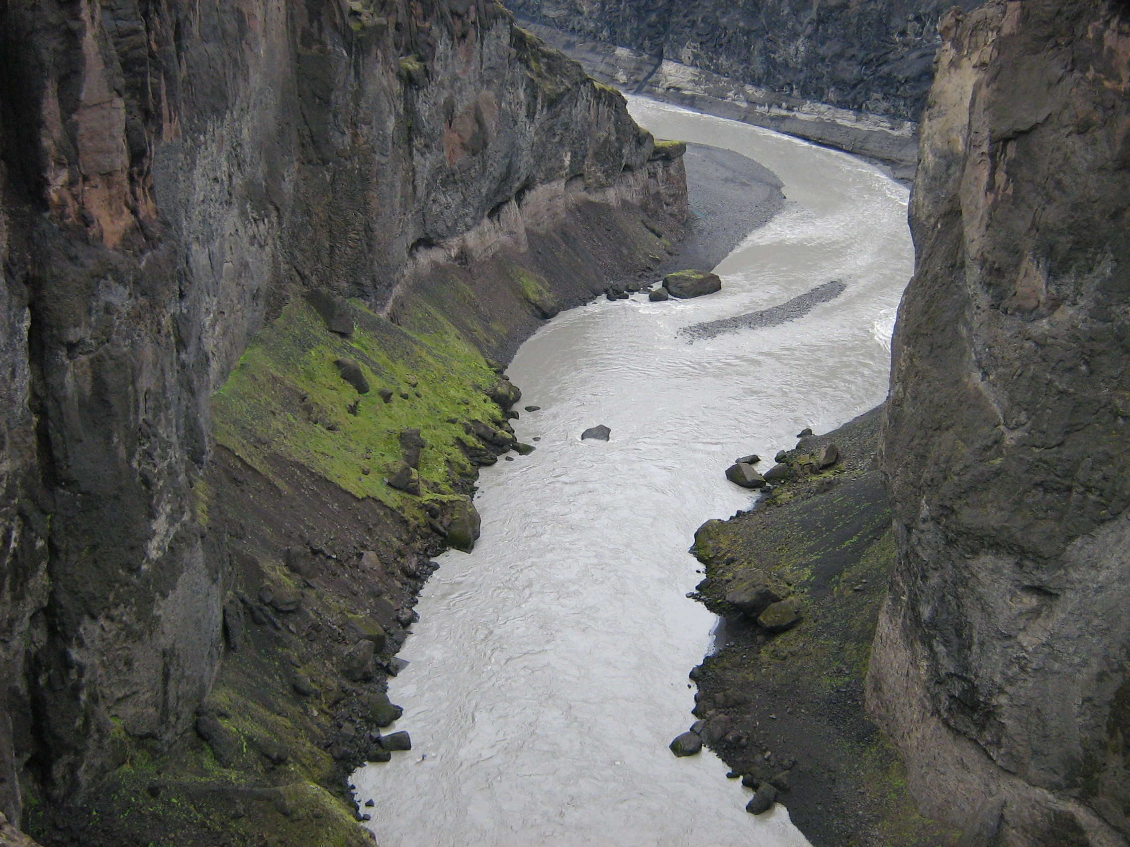 The canyons of Hafrahvammar.